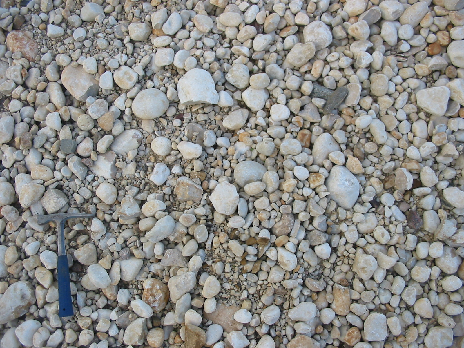 Gravel and pebble